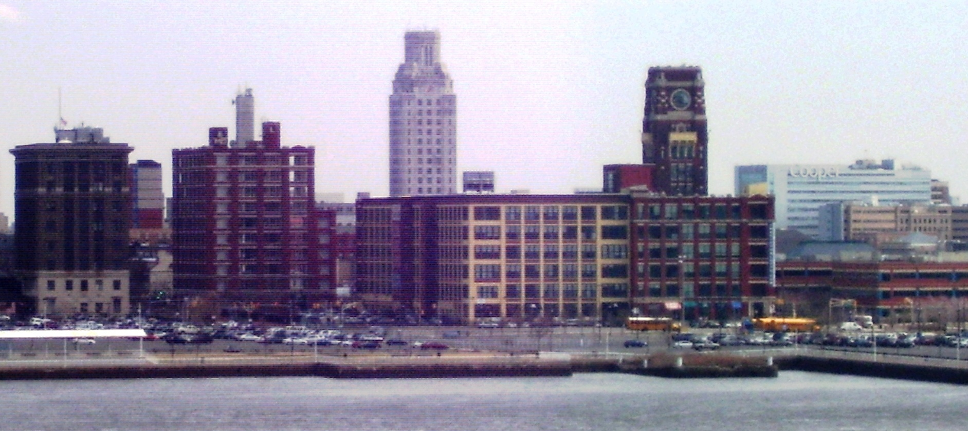 The skyline of Camden, New Jersey south of the Benjamin Franklin Bridge as seen from the 8th floor of the Comfort Inn in Philadelphia, Pennsylvania.